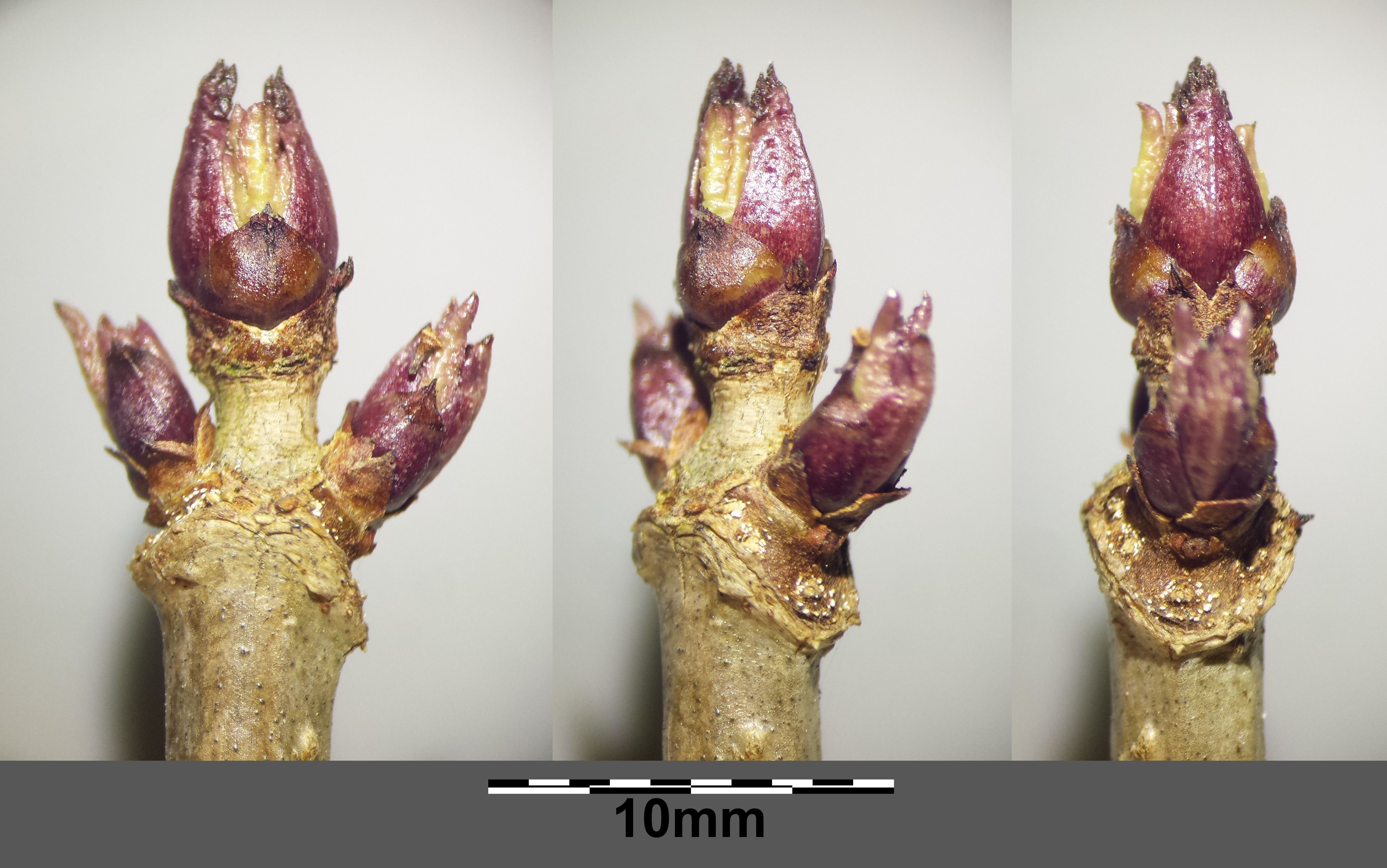 Buds Taxonym: Sambucus nigra ss Fischer et al. EfÖLS 2008 ISBN 978-3-85474-187-9 Location: Rohrwald, district Korneuburg, Lower Austria - ca. 240 m a.s.l. Habitat: Carpinion betuli